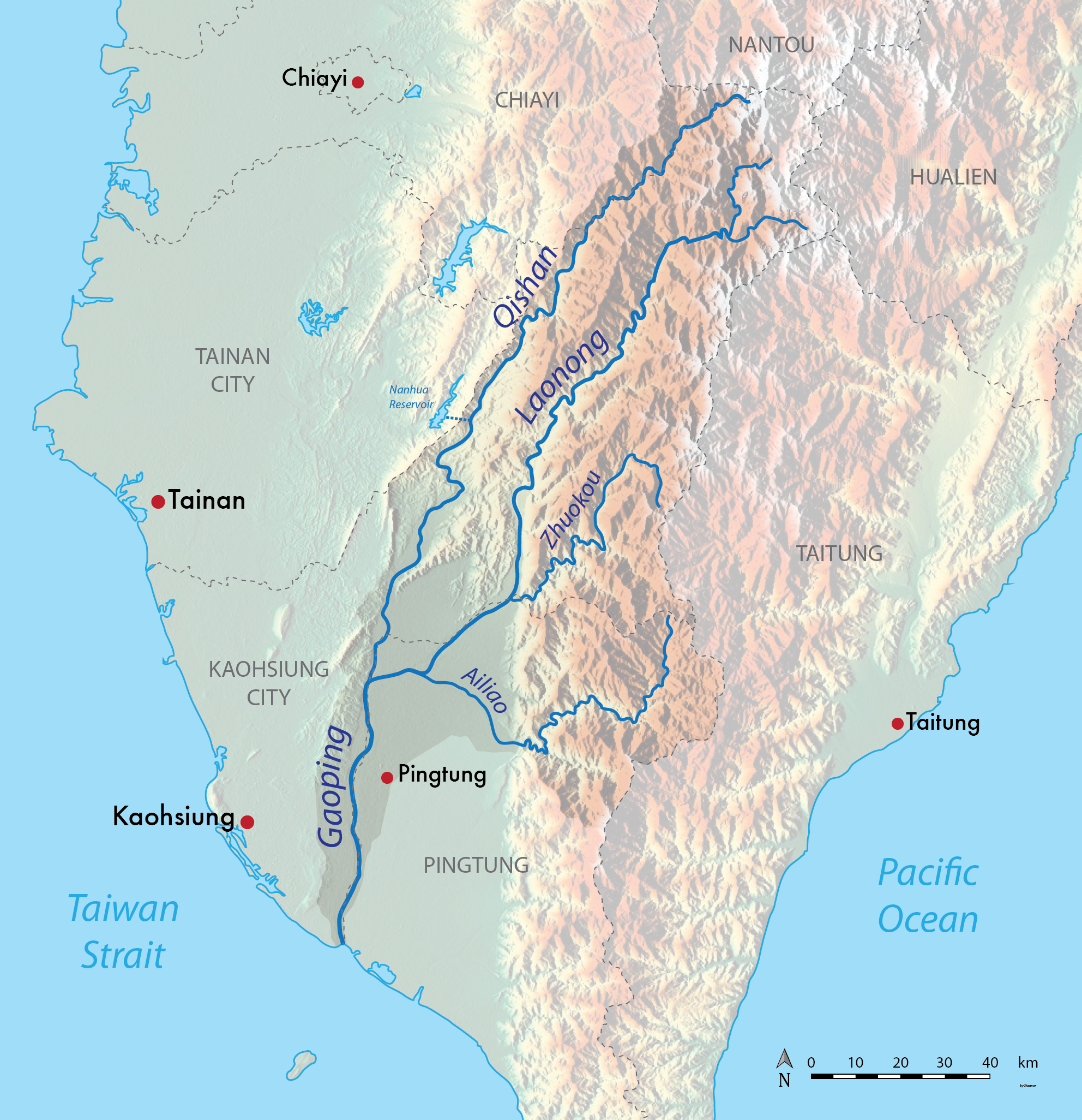 New map showing the Gaoping River in southern Taiwan. Shaded relief from US Geological Survey